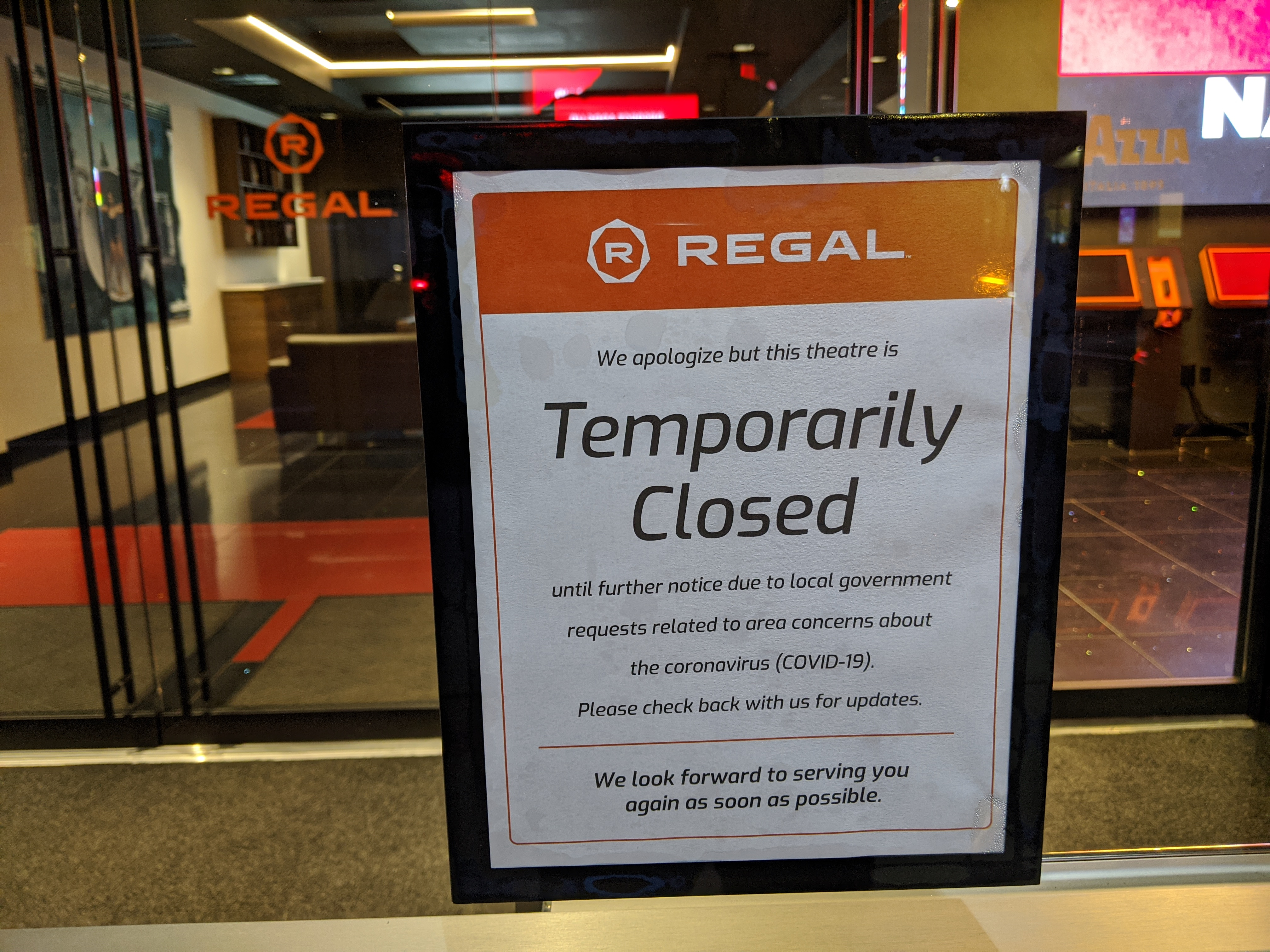 Temporarily Closed